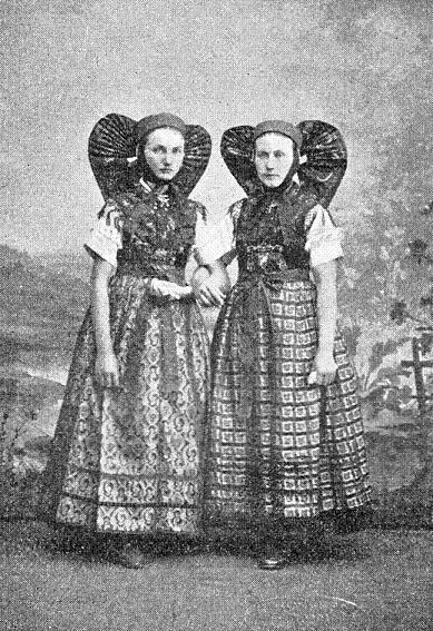 Fläming-Tracht (German costume) before 1900, girls in Jüterbog, state Brandenburg, Germany.